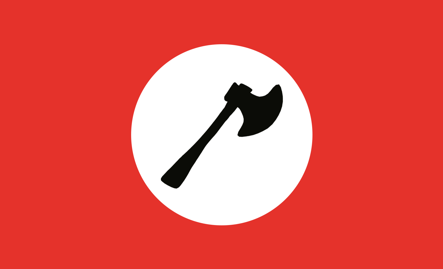 Flag used by Sindhudesh freedom movement.